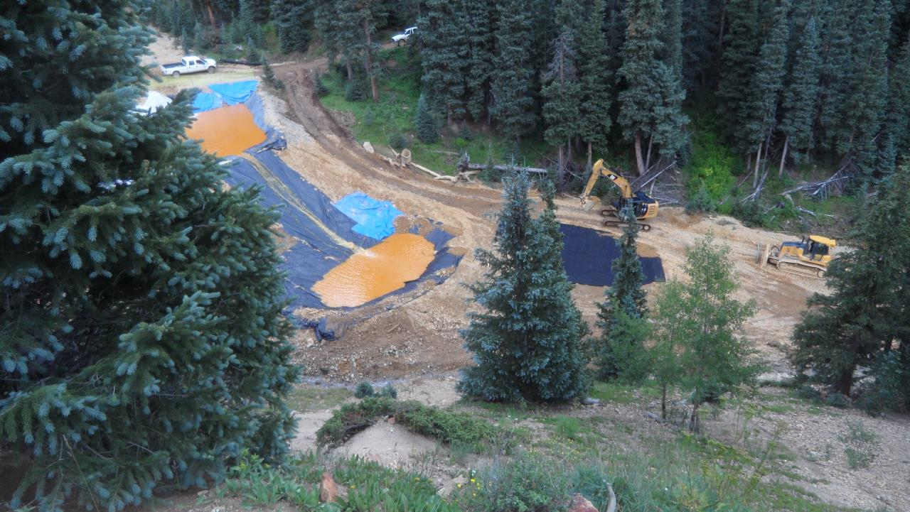 Retainings ponds constructed in response to the 2015 Gold King Mine Spill